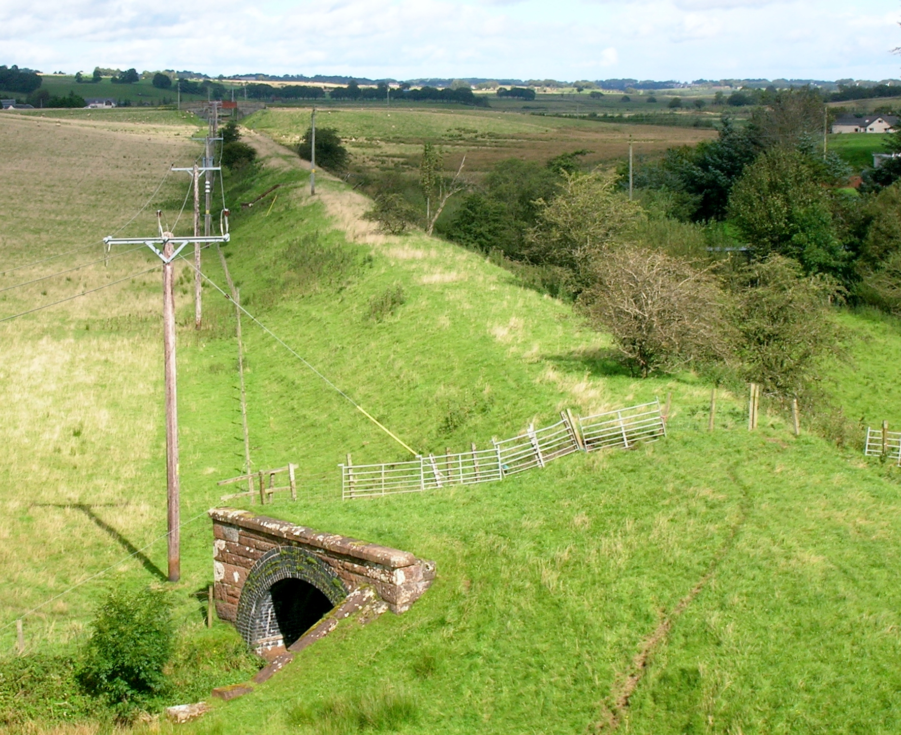 View from overbridge near Ryelandside towards Ryeland station site, South Lanarkshire, Scotland